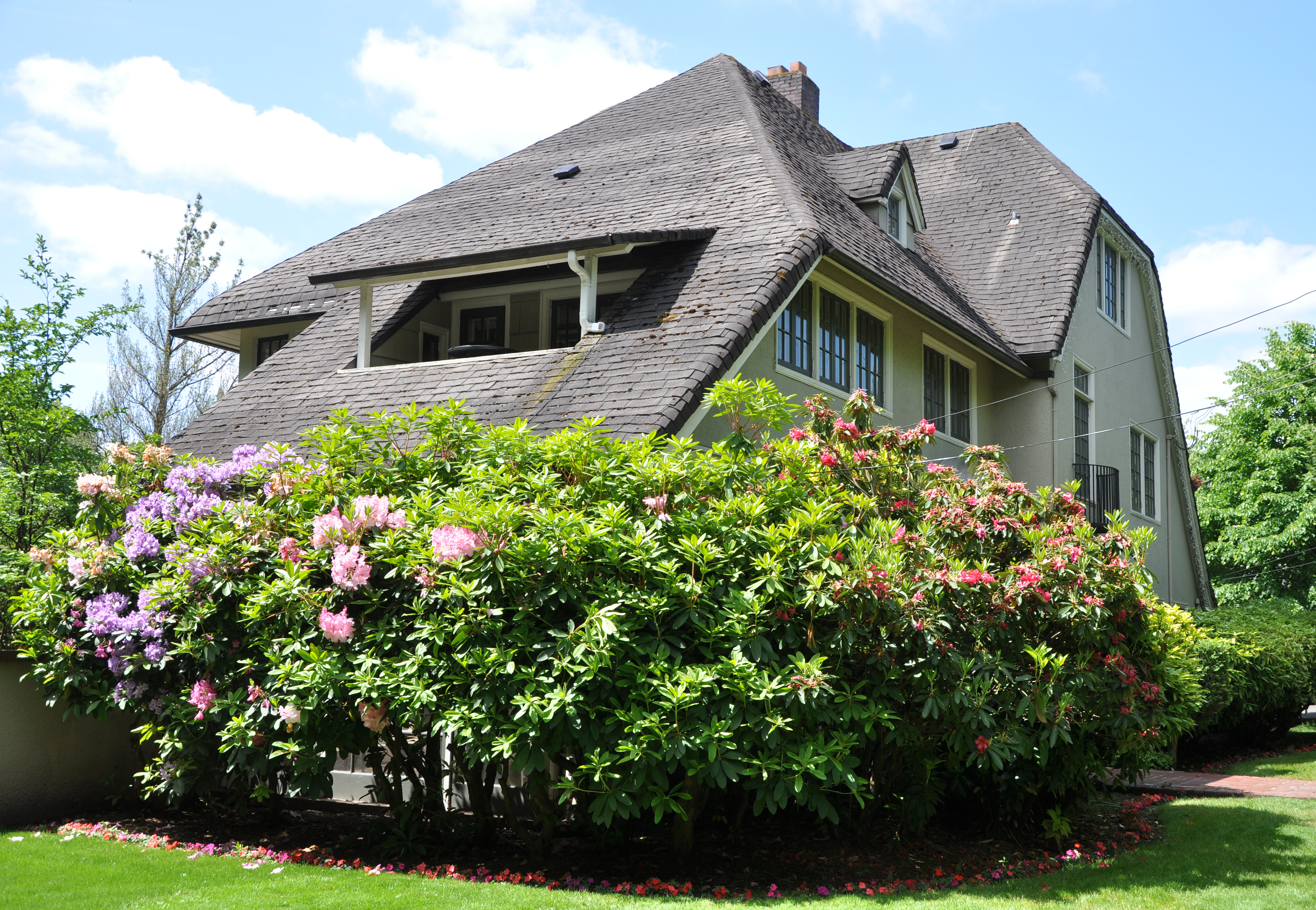 The Paul C. Murphy House in southeast Portland in the U.S. state of Oregon. The structure is listed on the National Register of Historic Places.